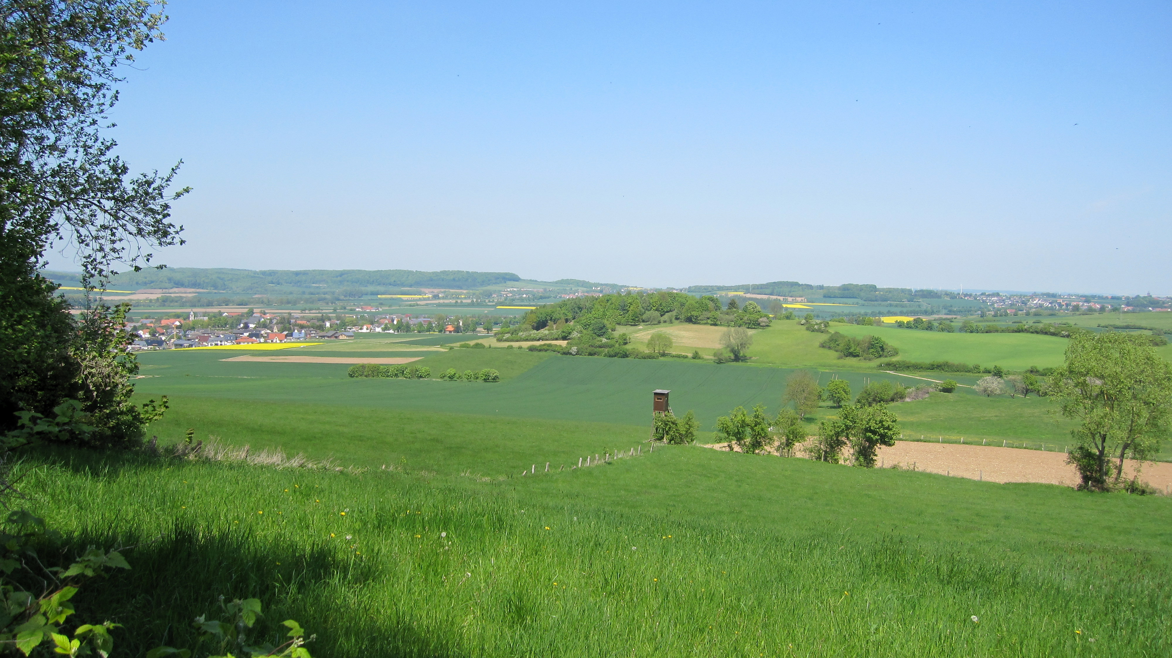 North West view from Heinberg in direction of Ossendorf, Nörde and Menne. Photograph regarding the 250th anniversary of the Battle of Warburg in 2010. The battle was fought on 31 July 1760 during the Seven Years' War at the Heinberg near todays constituent community Warburg-Ossendorf.